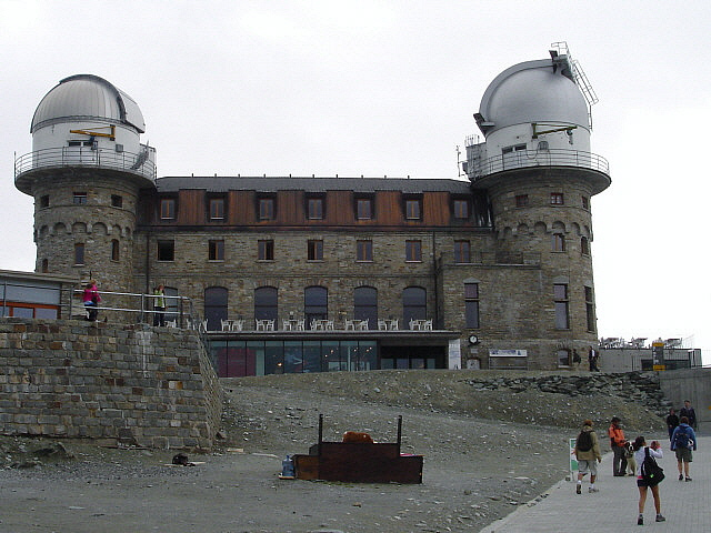 Gornergrat